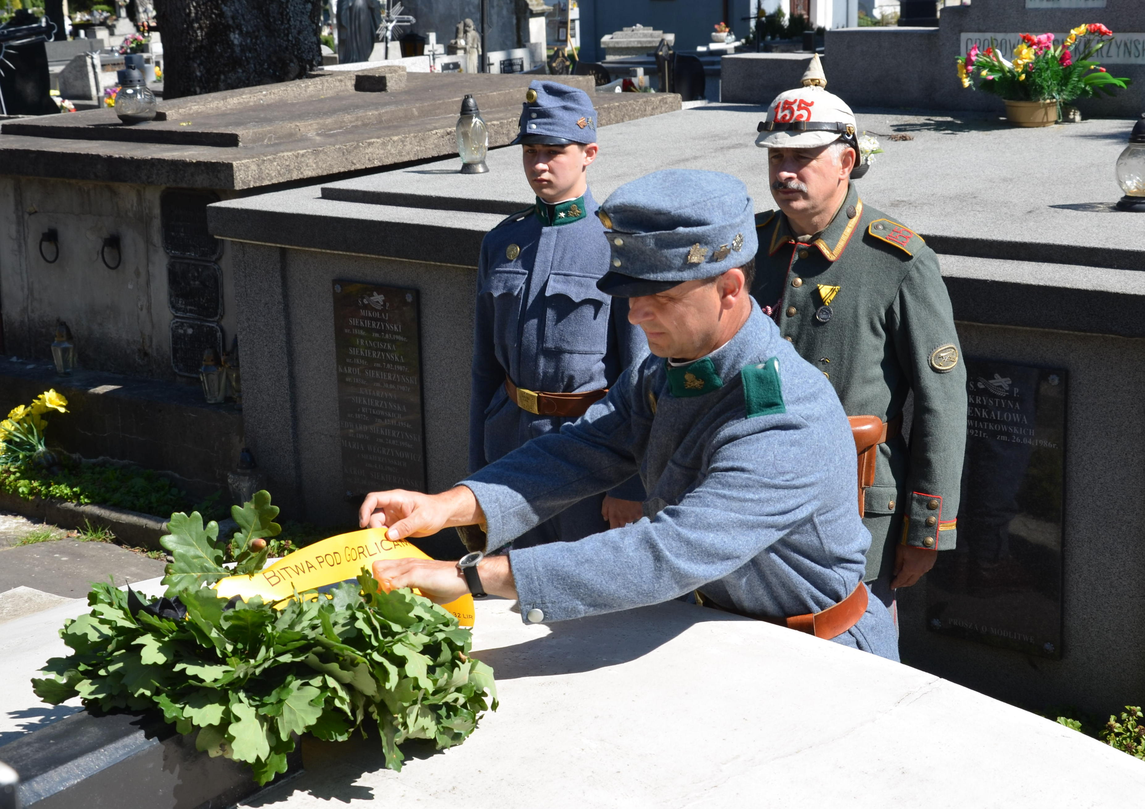 Achtes Treffen mit der österreichisch-ungarischen Geschichte in Sanok